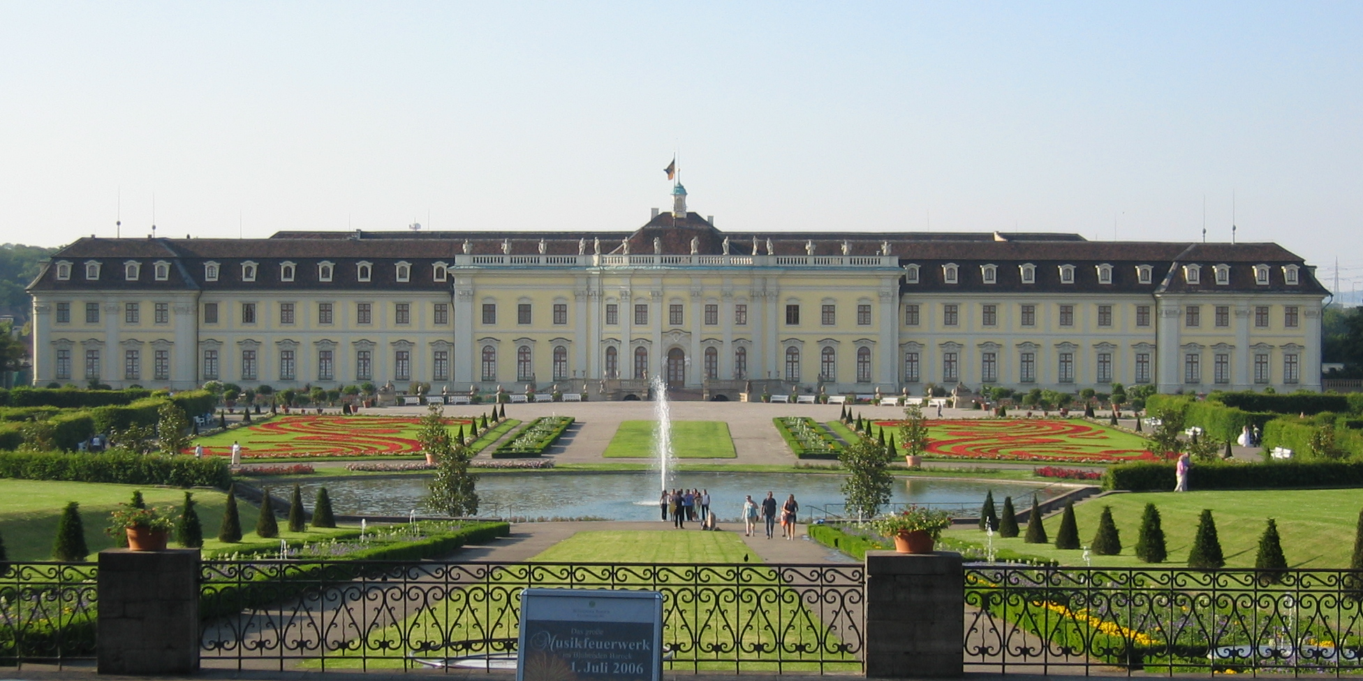 Schloss Ludwigsburg (palace), with the Baroque gardens of Schloss Ludwigsburg — in Ludwigsburg, Germany.